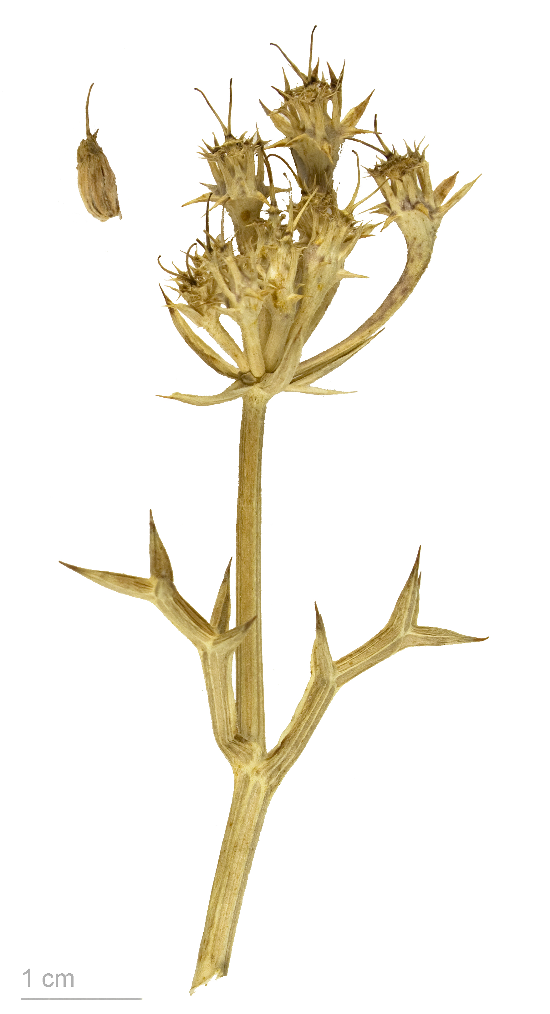 Prickly Samphire, fruits and seeds